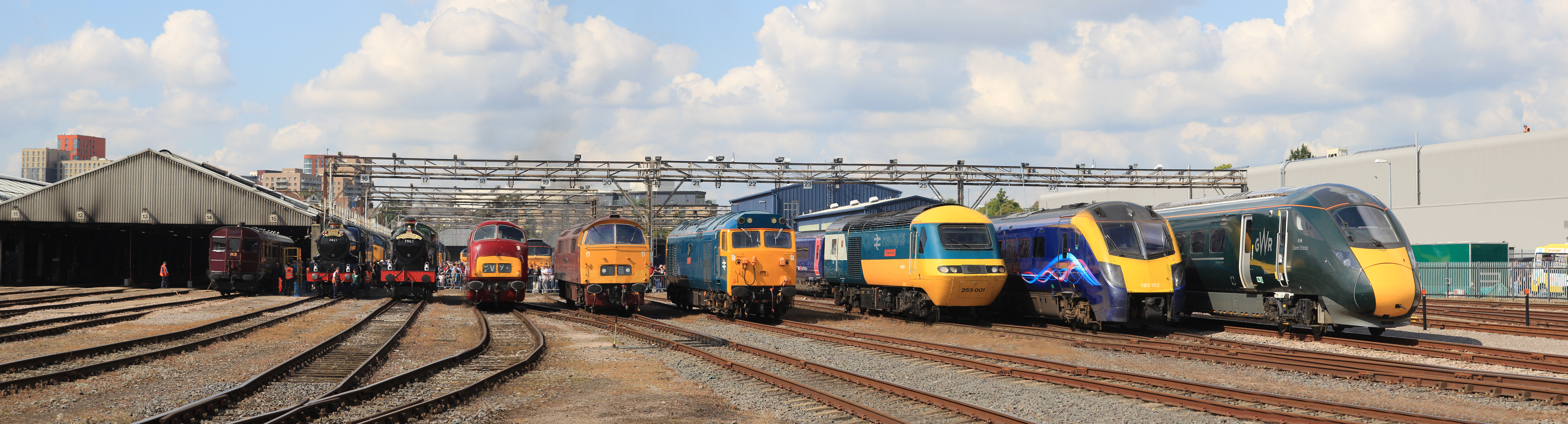 Old Oak Common Depot's open day in 2017 featured a 'Legends of the Great Western' line up to show the changes in motive power over the depot's 111 years. Steam power on the left is represented by Railmotor 93, 6023 King Edward II and 7903 Foremarke Hall. In the middle are diesel locomotives from the 1950s, 60s and 70s: D821 Greyhound, D1015 Western Champion and 50035 Ark Royal. On the right are the current and future fleet represented by 43002 Sir Kenneth Grange, 180102 and 800003 Queen Victoria.